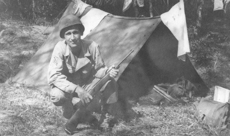 Description: A photograph taken by Corporal Charles Overstreet while his unit was stationed at Fort Benning, Georgia during World War II. He was a member of the Headquarters Battery Radio Unit of the 252nd Field Artillery Battalion. Corporal Overstreet was a radio operator for his unit and was made their official unit photographer. The 252nd was rated the top artillery unit at the time and sent to Fort Benning, Georgia to demonstate correct artillery procedures to West Point Officer Candidates during what was called "School Troops." This photo shows Larry Brudahl setting outside a pup tent during maneuvers. Original photograph size: 4.42 in (h) x 7.47 in (w). Creator: Charles Overstreet View source image Charles and Katie Overstreet have generously allowed the Flora Public Library to borrow their collection for digitization. Part of Charles Overstreet Collection, Flora Public Library Brought to you by IMLS Digital Collections and Content Unrestricted access; use with attribution.